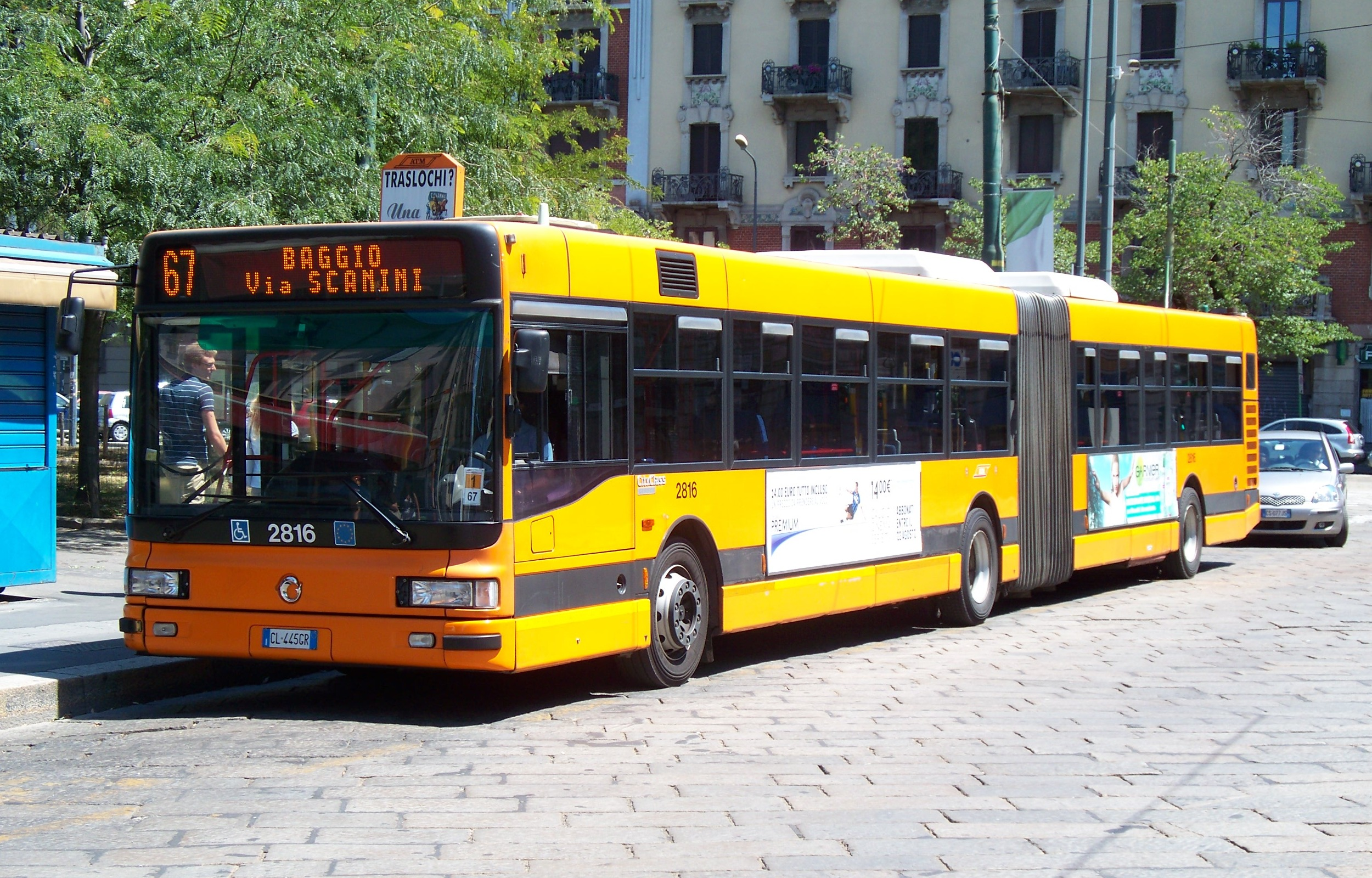 Public bus in Milan, Italy.